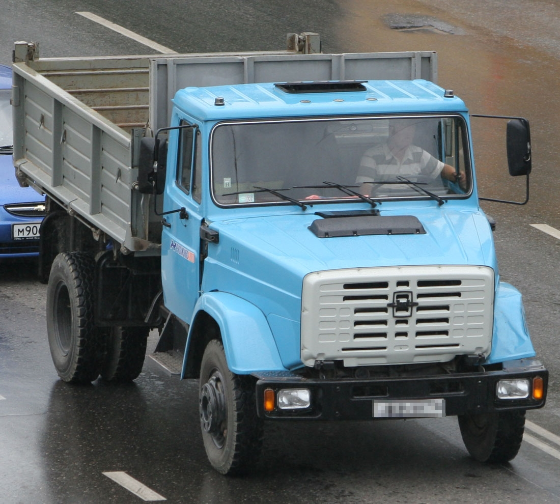 ZiL-534340 truck.